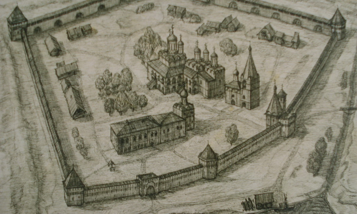 The Spassky Monastery (Yaroslavl)